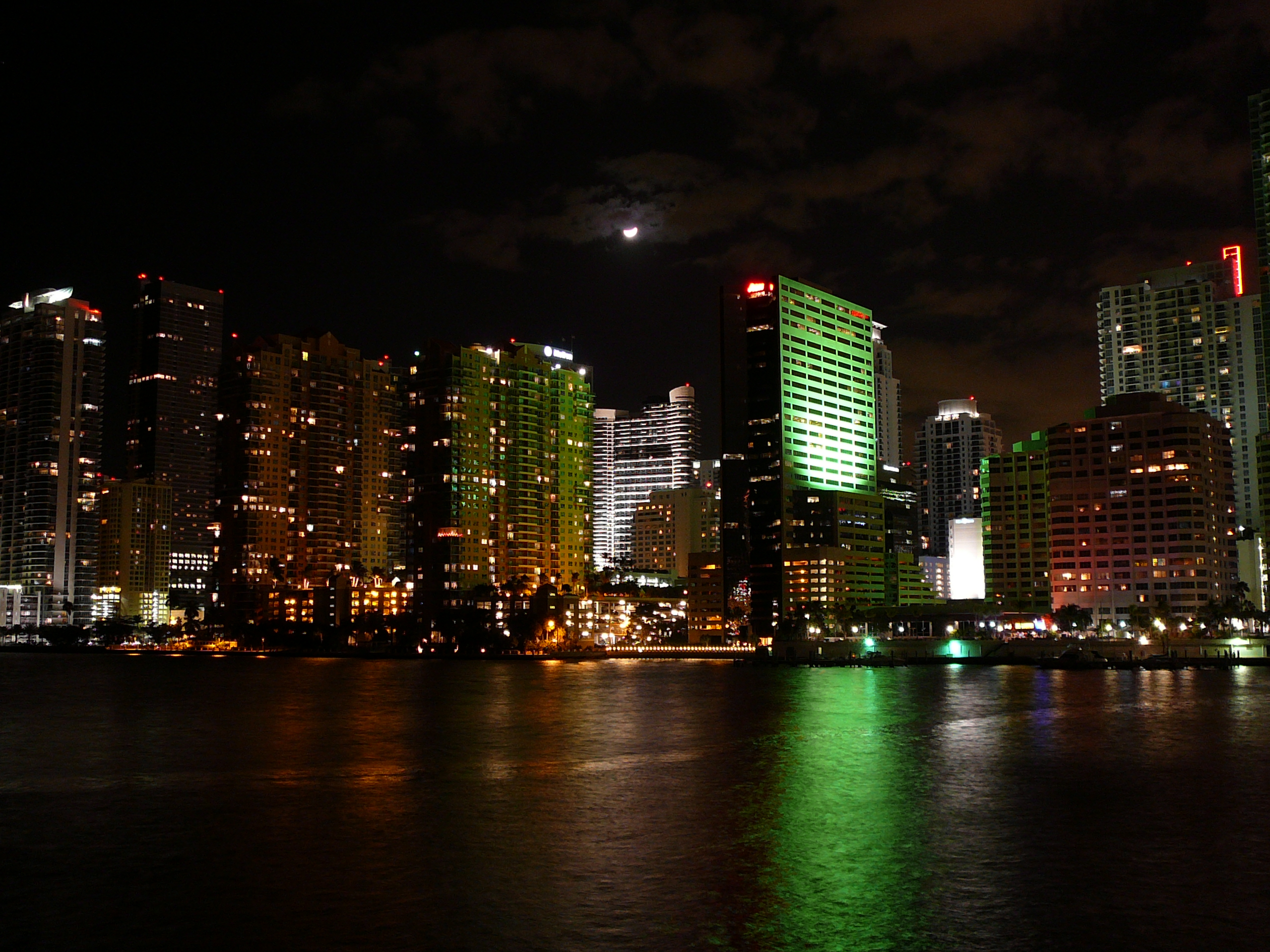 Digital photo taken by Marc Averette. Northern Brickell skyline at night as seen from the Mandarin Oriental 12/3/2008.